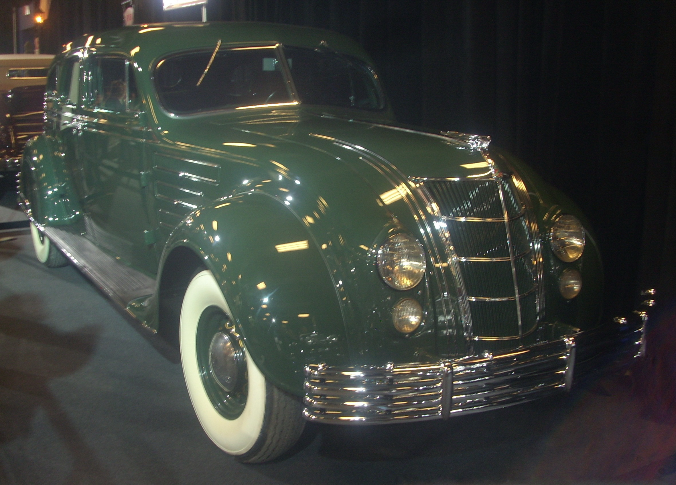 1934 Chrysler Airflow photographed in Montreal, Quebec, Canada at the 2010 Montreal International Auto Show.